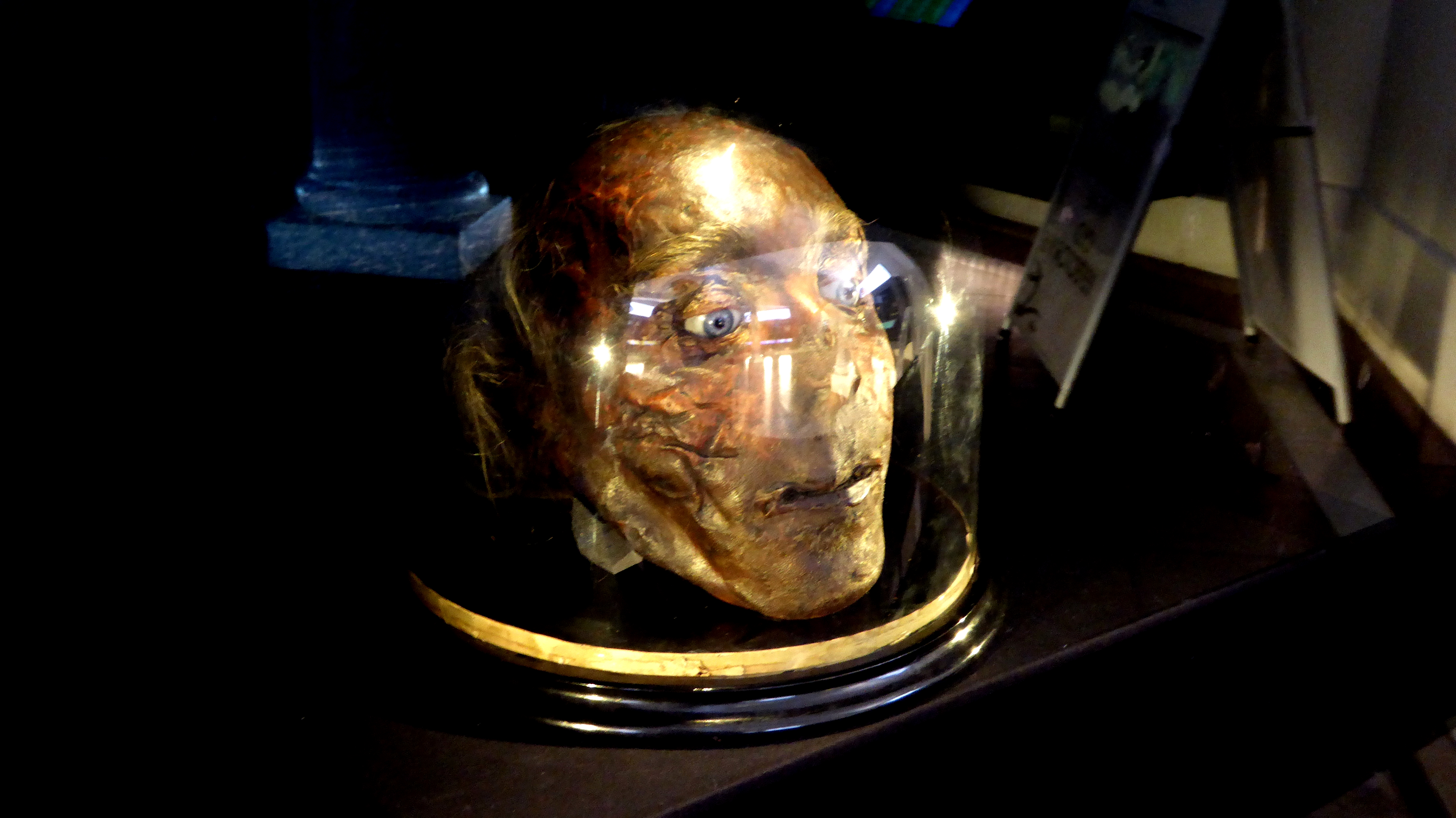 The detached, preserved head of Jeremy Bentham, on display during a temporary exhibition in the main building of University College London in Central London.